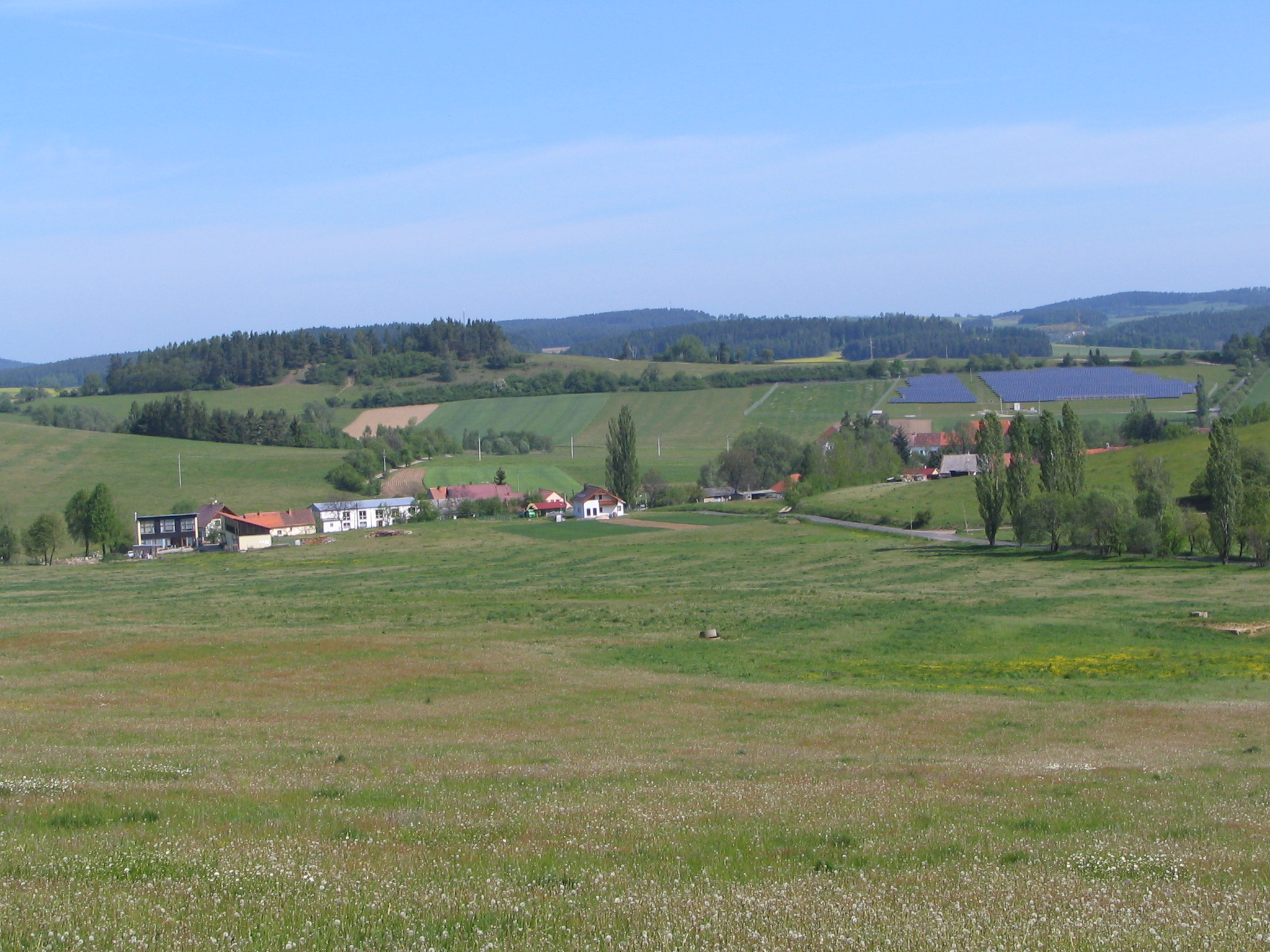 Panorama of Bušanovice with the solar powerplant